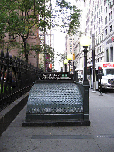 Wall Street (IRT Lexington Avenue Line)